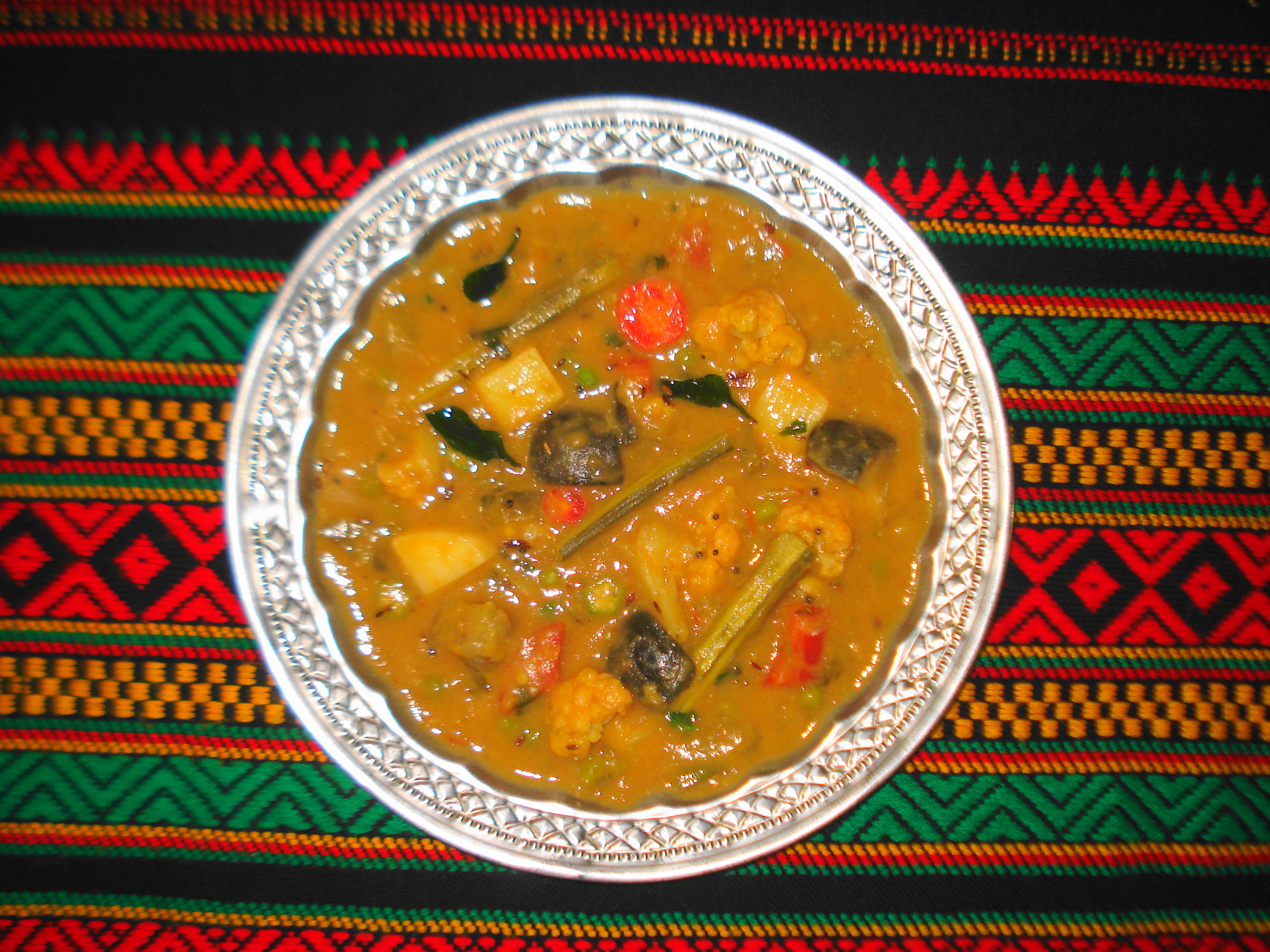 Sindhi Kadhi, Sindhi Karhi